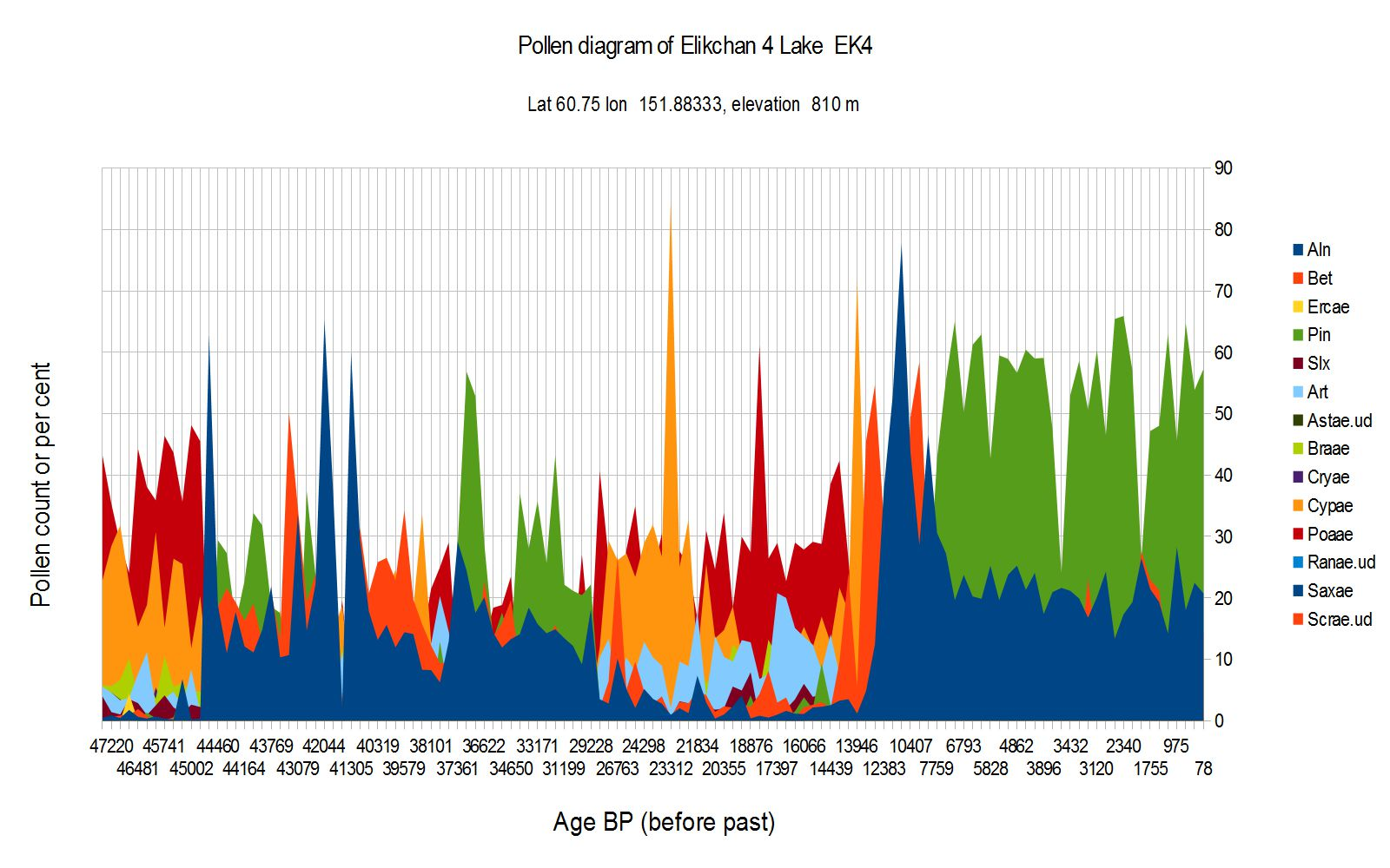 Dated pollen samples from Lake Elickchan, Sample sequence EK4. Sequence begins on Middle Weichselian time, when climata was colder than today, mut warmer than last glacial maximum ca 28000-17000 BP. Lake Elickchan is in far east Siberia, near strand of Ohotsk sea. This image is Open Pffice chart data "Area diagram" plot from converted datafile EK4 ORIGINATOR (CONTRIBUTORS): Anderson, P.M. DISTRIBUTOR: National Climatic Data Center, NESDIS, NOAA, U.S. Department of Commerce RESOURCE DESCRIPTION (data set id): noaa-pollen-7533 DATA COVERAGE: North-bound Latitude: 60.75 * South-bound Latitude: 60.75 West-bound Longitude: 151.88333 * East-bound Longitude: 151.88333 Minimum Altitude: 810 m * Maximum Altitude: 810 m Start Year: 26770 14C yr BP * End Year: 70 14C yr BP